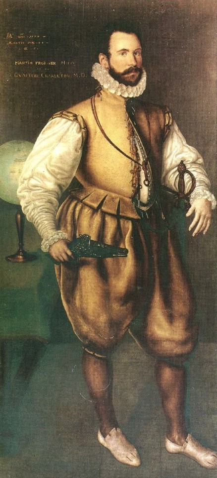 Frobisher wears a jerkin closed only at the neck over a peascod-bellied doublet. A portrait by by Cornelis Ketel.